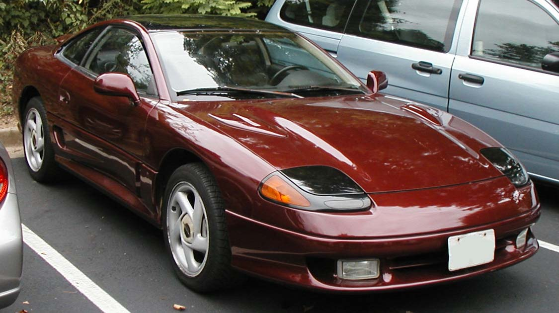 Dodge Stealth photographed in USA.